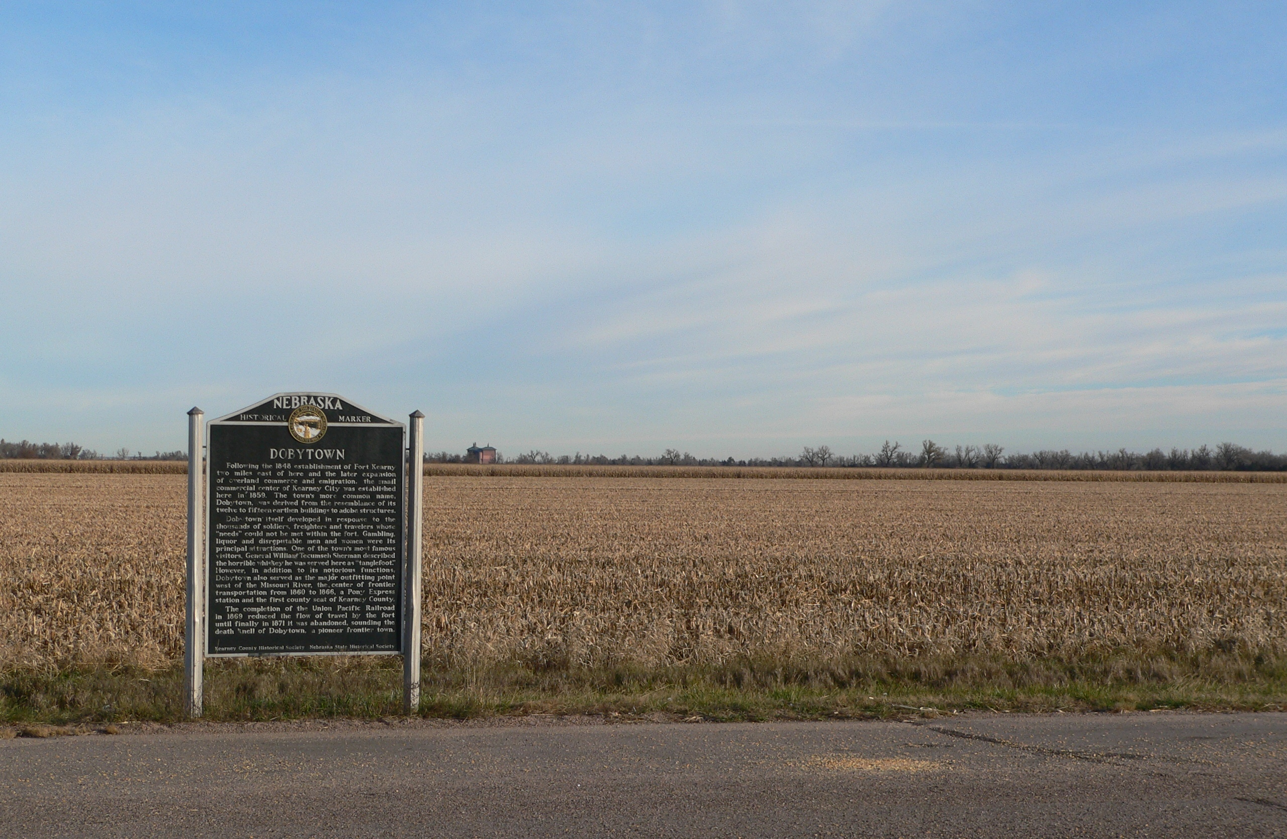 Site of Dobytown, a ghost town in Kearney County, Nebraska. The historical marker in the picture is on the north side of Nebraska Highway 50A, two miles east of Nebraska Highway 10, and about a mile south of the Platte River. No buildings remain at the site, which is on the National Register of Historic Places. (The building visible on the horizon just to the right of the marker is the Archway Monument, a modern structure.)